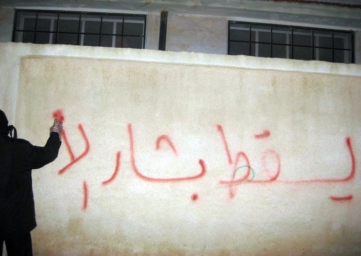 The phrase "Down with Bashar" (liyaskuṭ Baššār), during the Syrian Uprising 2011.